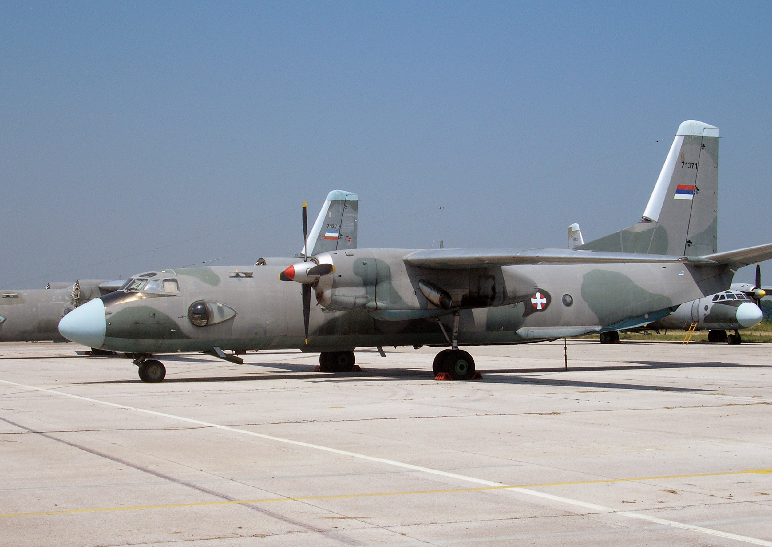 An-26 No.71371 of 138. Mixed-Transport-Aviation Squadron, 204th Air Base of Serbian Air Force, at Batajnica airbase during the Saint Elijah, the Aviation Day in Serbia.